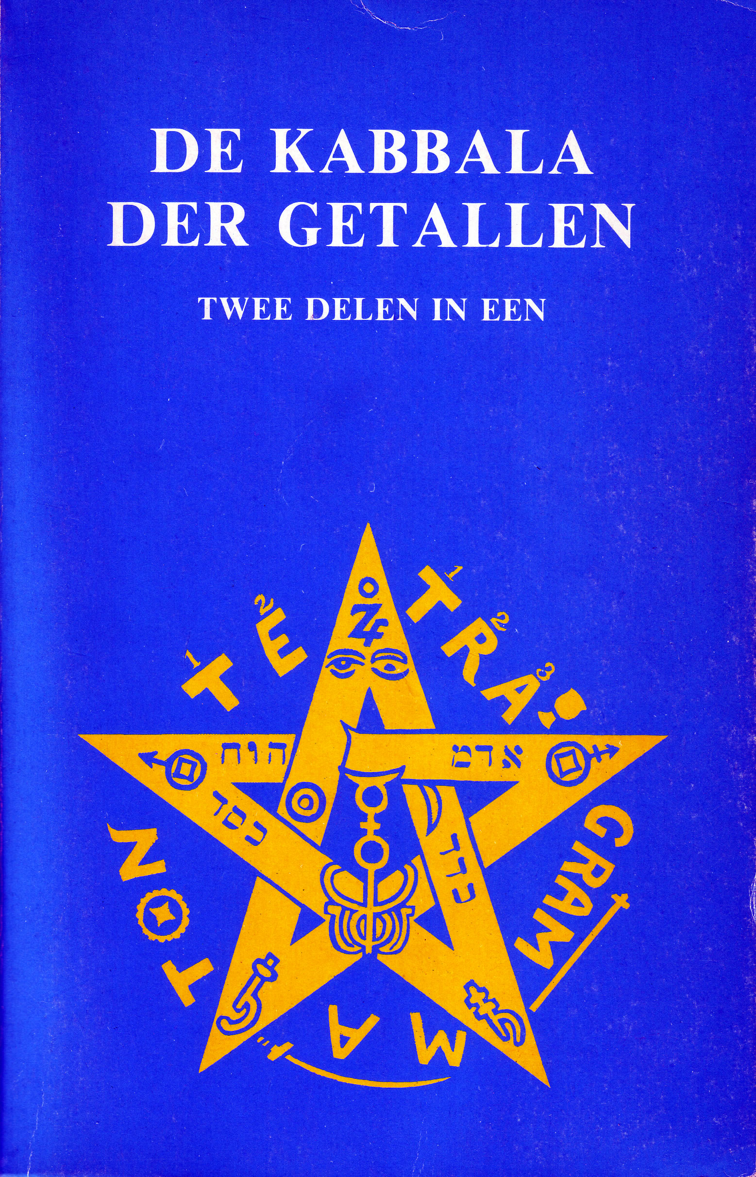 Book cover with simple plain font text (uncopyrightable) and 19th-century Eliphas Levi pentacle (out of copyright)